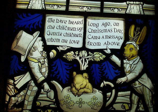 Detail of Lewis Carroll memorial window. This is the bottom central pane of the memorial window - see 284591